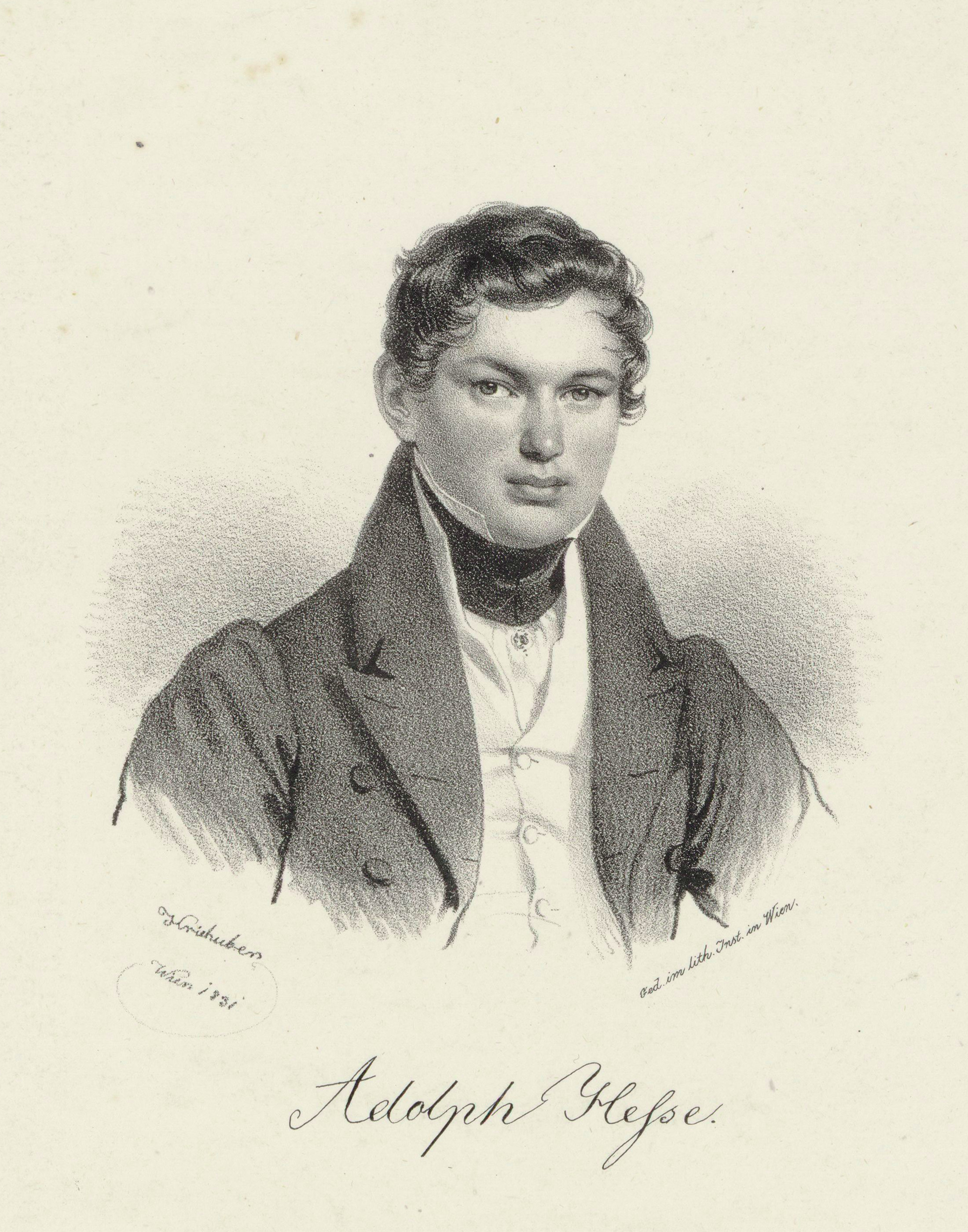 Depicted person: Adolph Friedrich Hesse